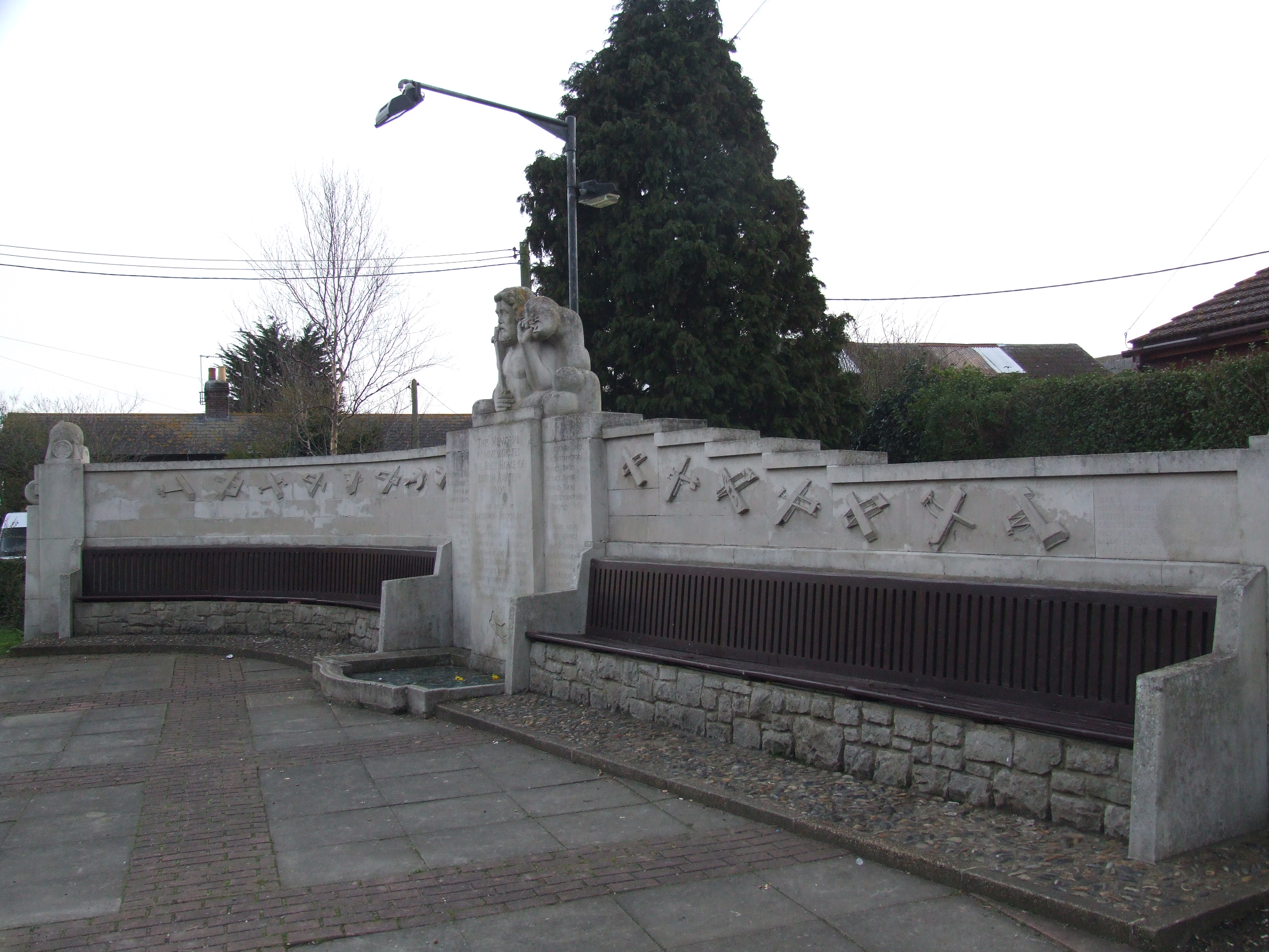 Eastchurch, Isle of Sheppey Kent. Aviation Memorial, Eastchurch was the first place in the UK, that the Wright Bros. used to fly their plane.